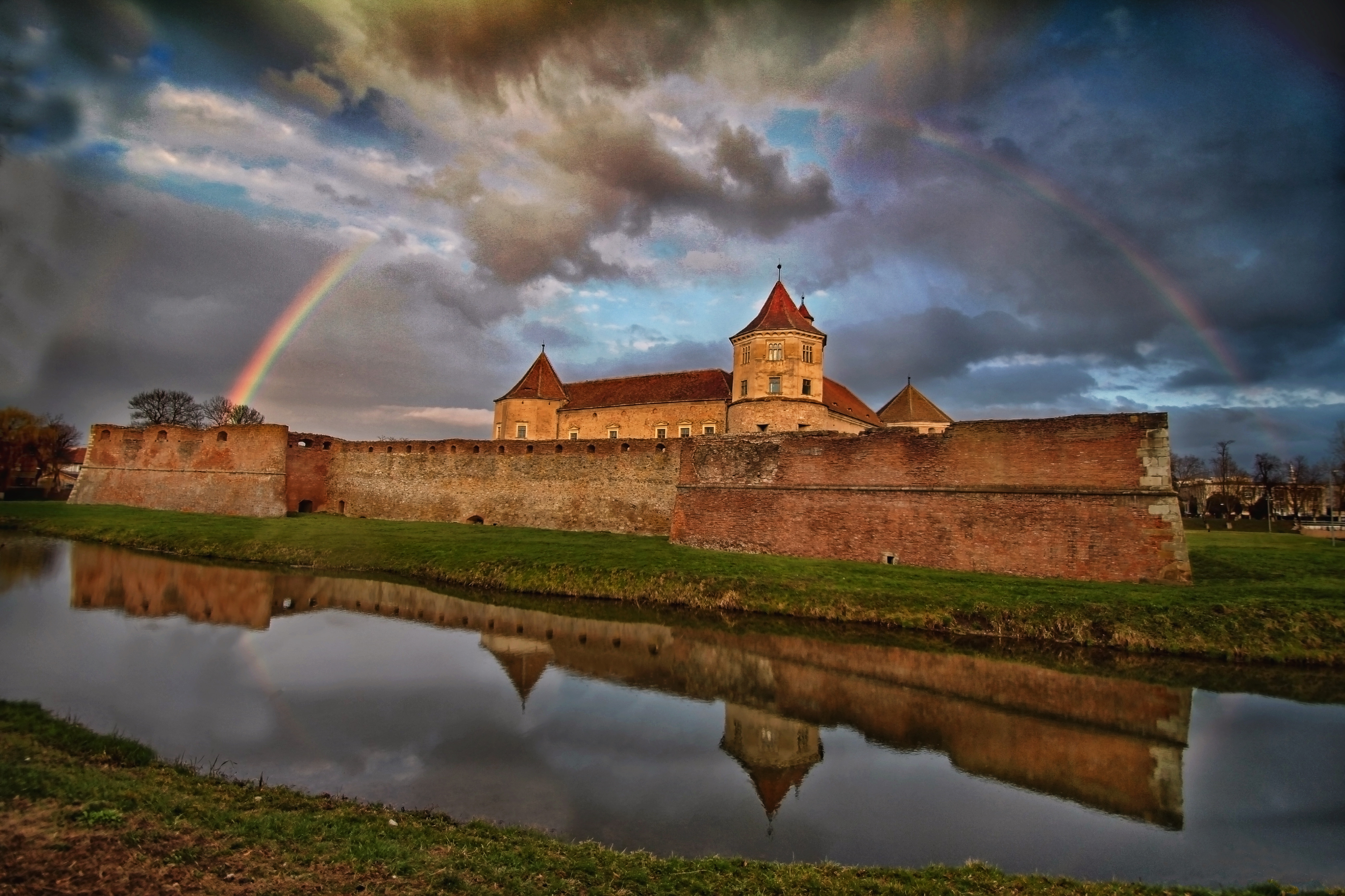 The usage of visible watermarks is discouraged. If a non-watermarked version of the image is available, please upload it under the same file name and then remove this template. Ensure that removed information is present in the image description page and replace this template with Metadata from image or Attribution metadata from licensed image . Caution: Before removing a watermark from a copyrighted image, please read the WMF's analysis of the legal ramifications of doing so, as well as Commons' proposed policy regarding watermarks. If the old version is still useful, for example if removing the watermark damages the image significantly, upload the new version under a different title so that both can be used. After uploading the non-watermarked version, replace this template with Superseded|new filename|version without watermarks .